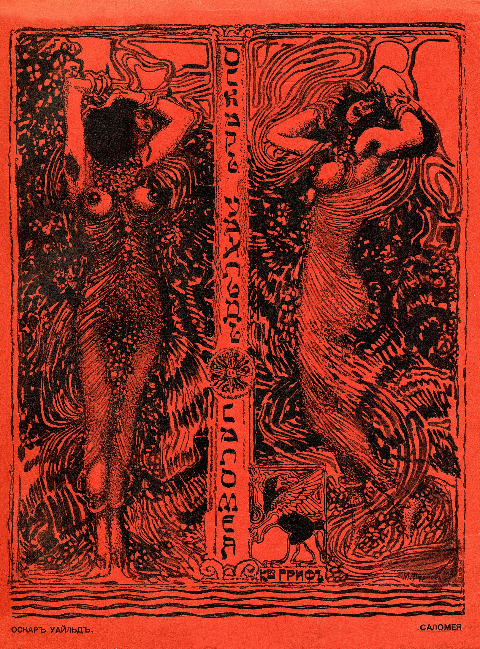 Cover of "Salome" by Oscar Wilde